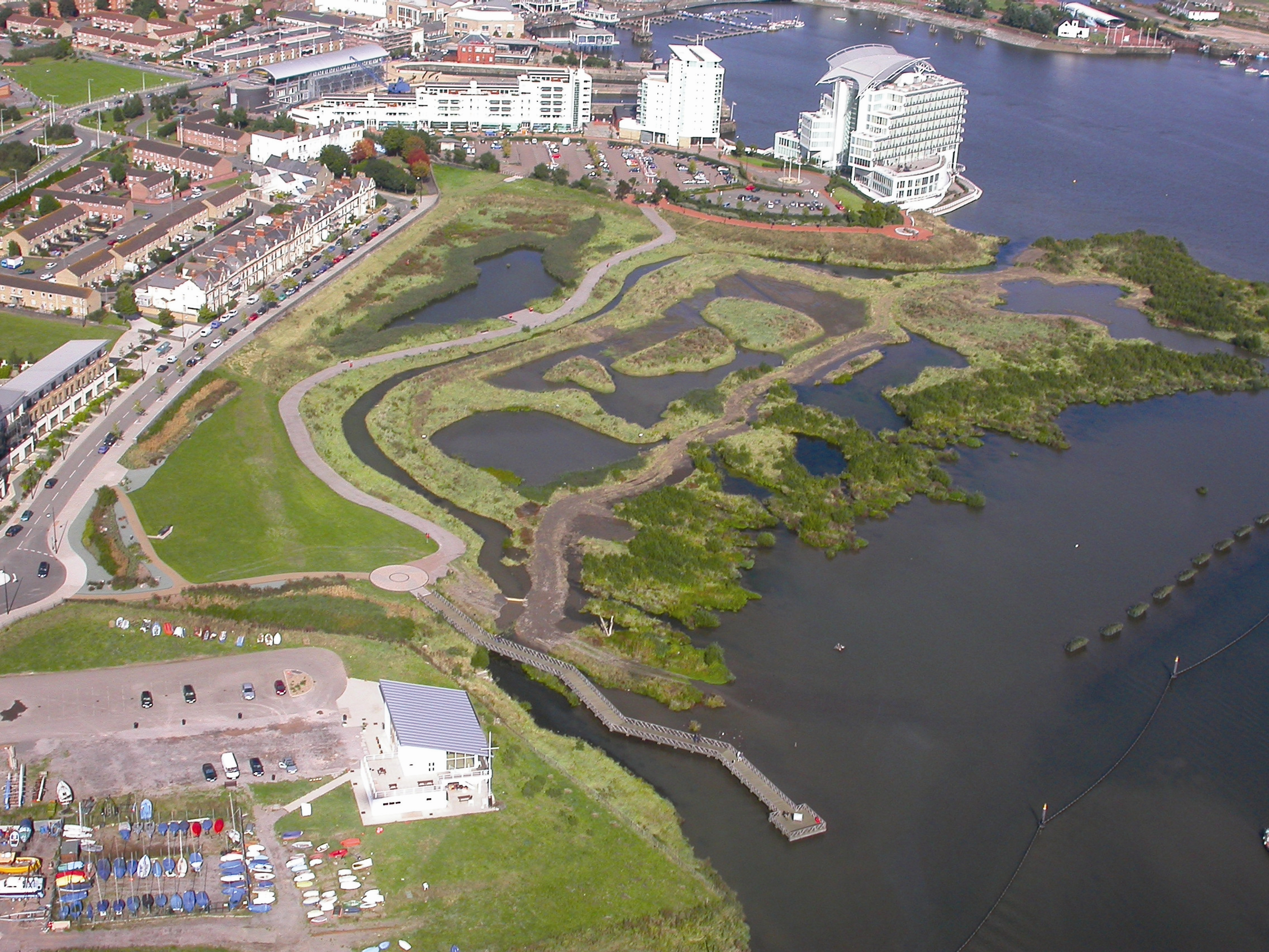 Cardiff Welands Aerial View